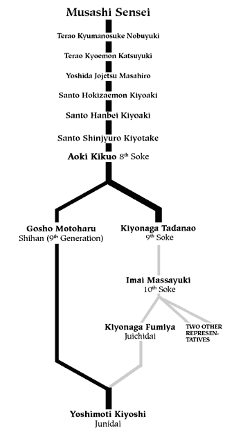 Hyoho Niten Ichi Ryu lineage